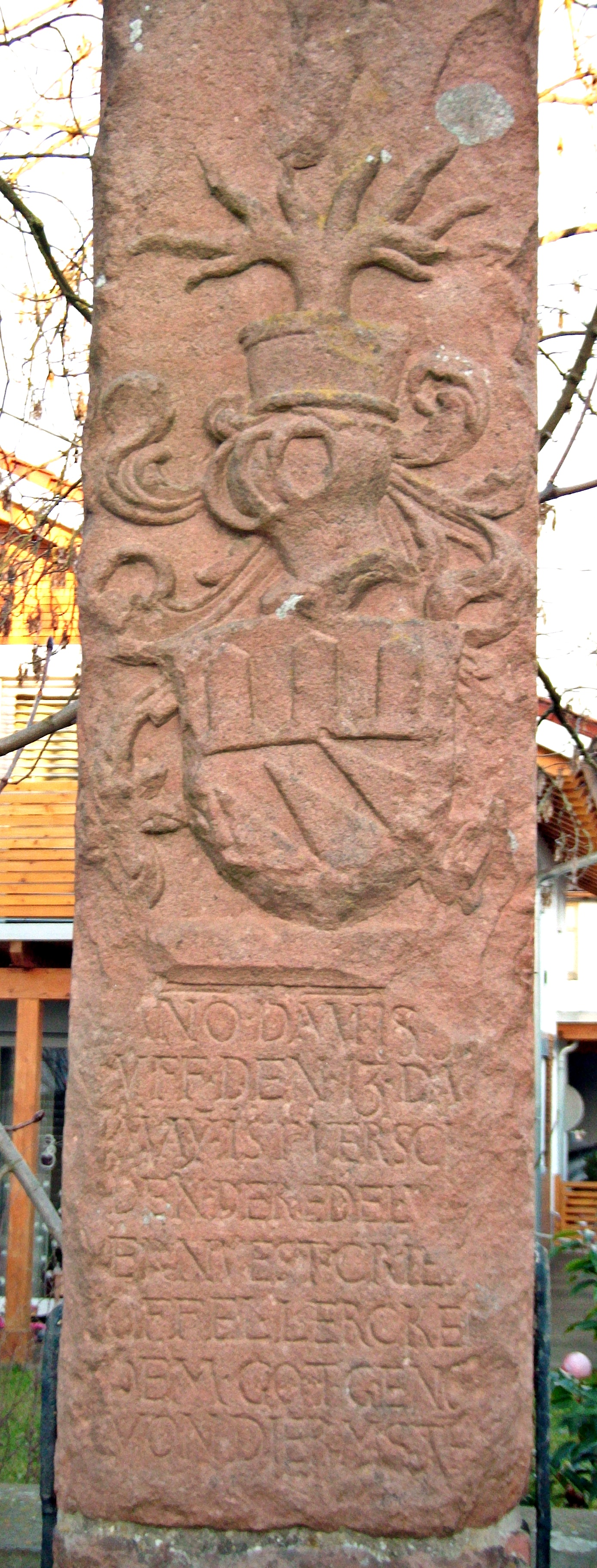 Inschrift am Weinsheimer Gedenkkreuz